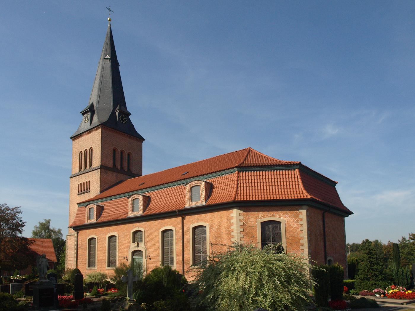 Schwarme (Lower Saxony, Germany), Castle Erbhof, photo 2011